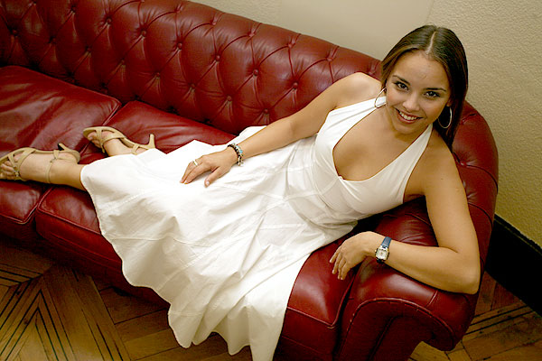 Spanish singer Chenoa. Chenoa